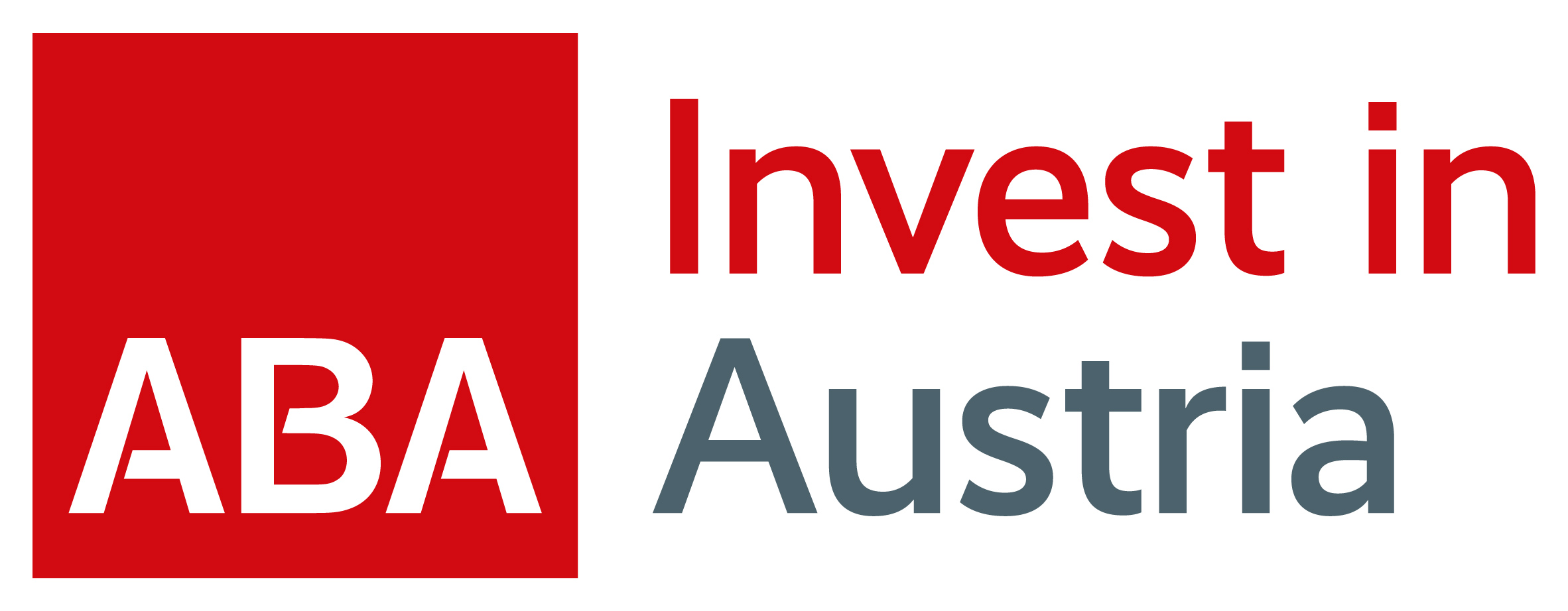 ABA Logo